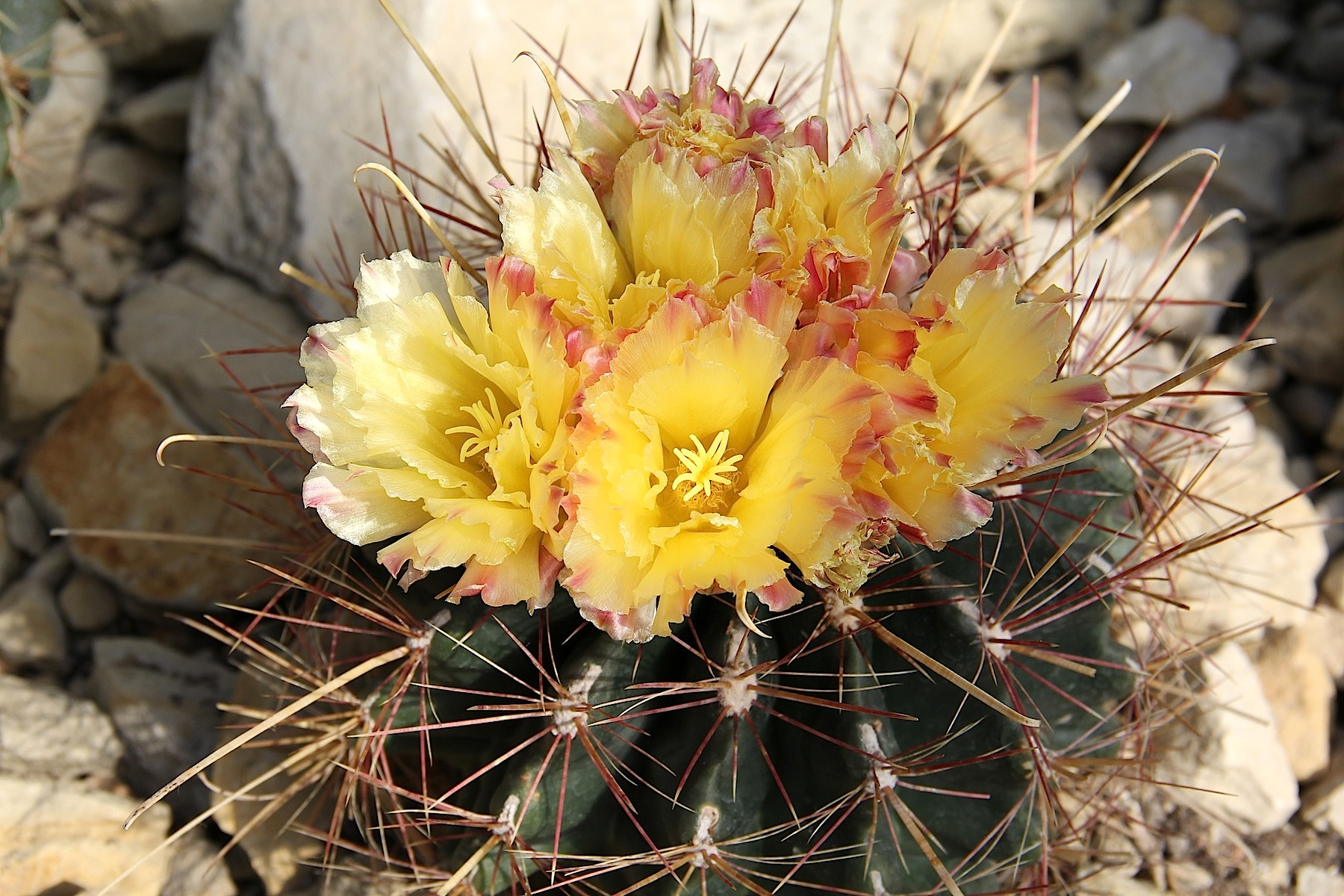 Ferocactus hamatacanthus subsp. hamatacanthus